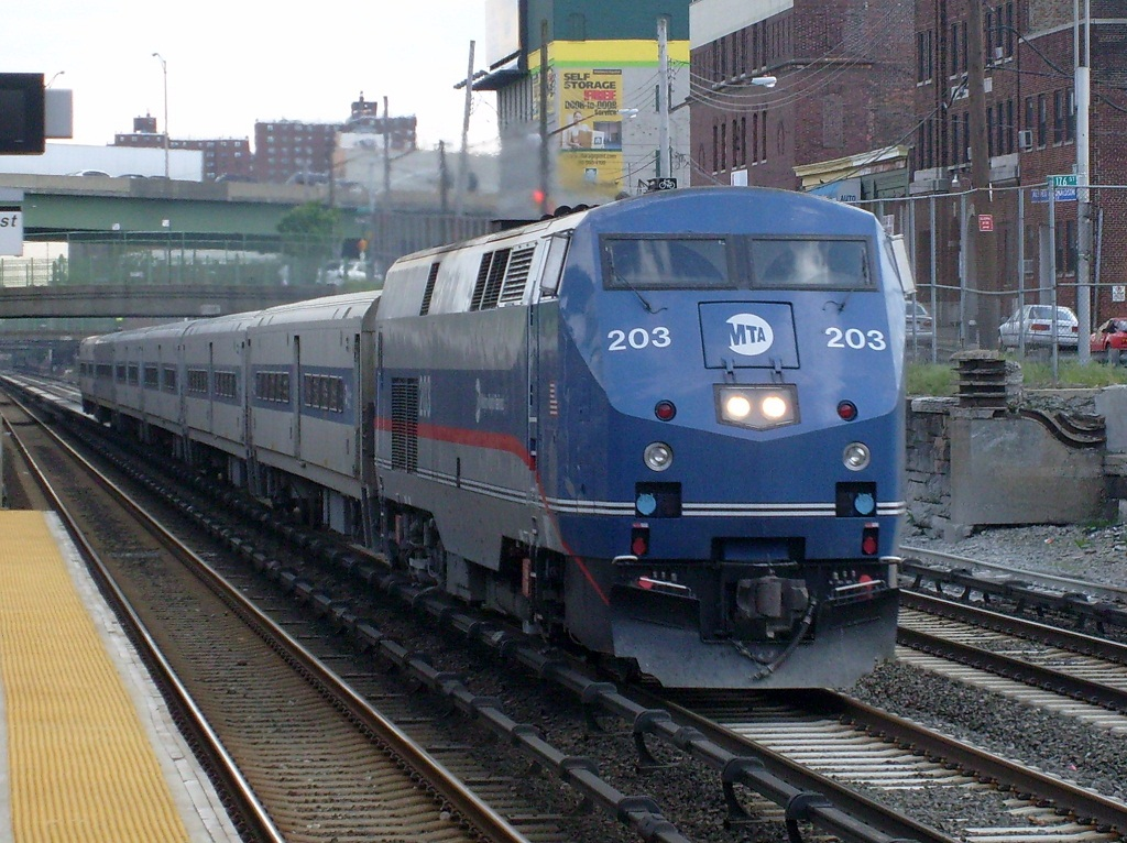 Metro-North GE Genesis P32AC-DM passing Tremont Station in The Bronx.